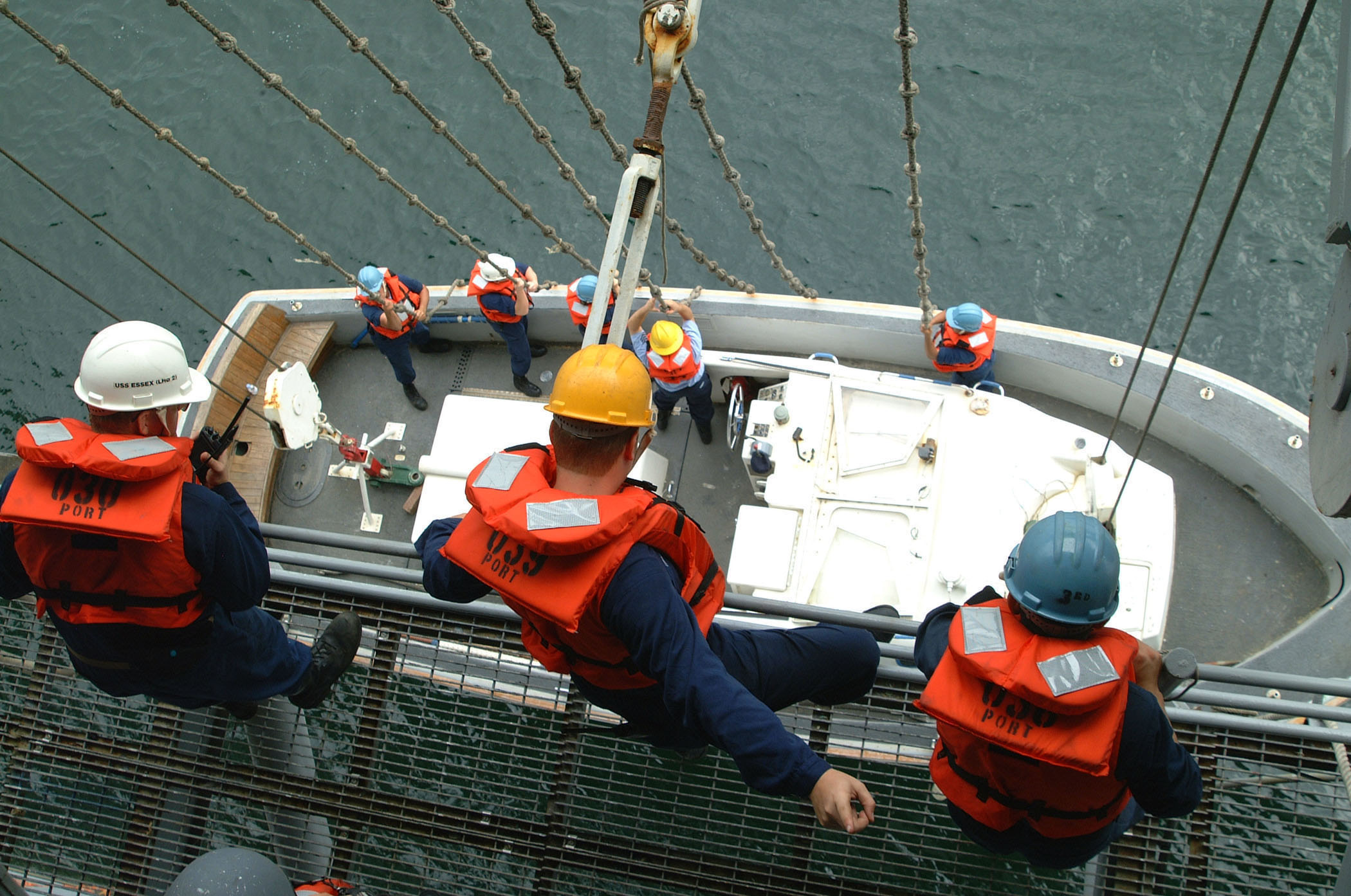 At sea aboard USS Essex (LHD 2) Aug. 12, 2002 -- Crewmembers from the deck department raise the Captain's gig from the water during the ship's sea and anchor evolution. Essex is underway conducting shipboard training. U.S. Navy photo by Photographer's Mate 3rd Class Gary B. Granger. (RELEASED)